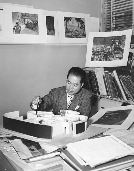 Eddie Imazu in his office, surrounded by plans and drawings.